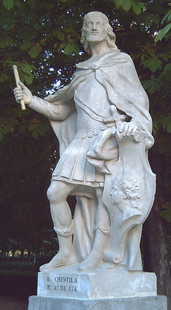 Statue of Visigoth king Chintila († 639) at the Paseo de la Argentina (a walk) in the Retiro Park (Jardines del Buen Retiro), in Madrid (Spain). Sculpted in white stone by François de Vôge between 1750 and 1753.